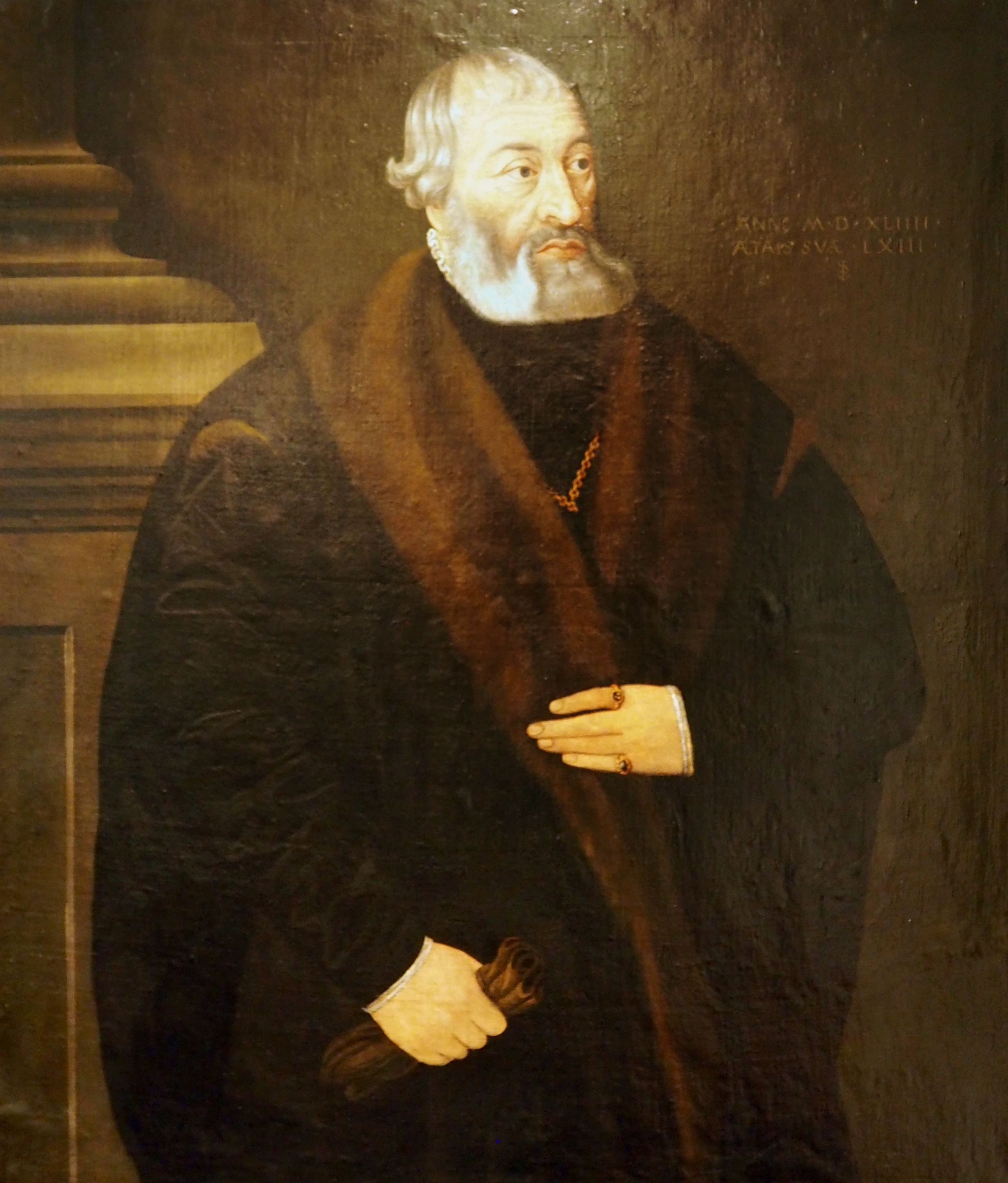 Georg Hörmann von und zu Gutenberg (1491-1552), citizen of Kaufbeuren, head administrator/factor of Jakob Fugger and lord of the village of Gutenberg in today's Ostallgäu, portrait from about 1550 This is a faithful photographic reproduction of a two-dimensional, public domain work of art. The work of art itself is in the public domain for the following reason: This work is in the public domain in its country of origin and other countries and areas where the copyright term is the author's life plus 100 years or fewer. You must also include a United States public domain tag to indicate why this work is in the public domain in the United States. This file has been identified as being free of known restrictions under copyright law, including all related and neighboring rights. The official position taken by the Wikimedia Foundation is that "faithful reproductions of two-dimensional public domain works of art are public domain".This photographic reproduction is therefore also considered to be in the public domain in the United States. In other jurisdictions, re-use of this content may be restricted; see Reuse of PD-Art photographs for details.